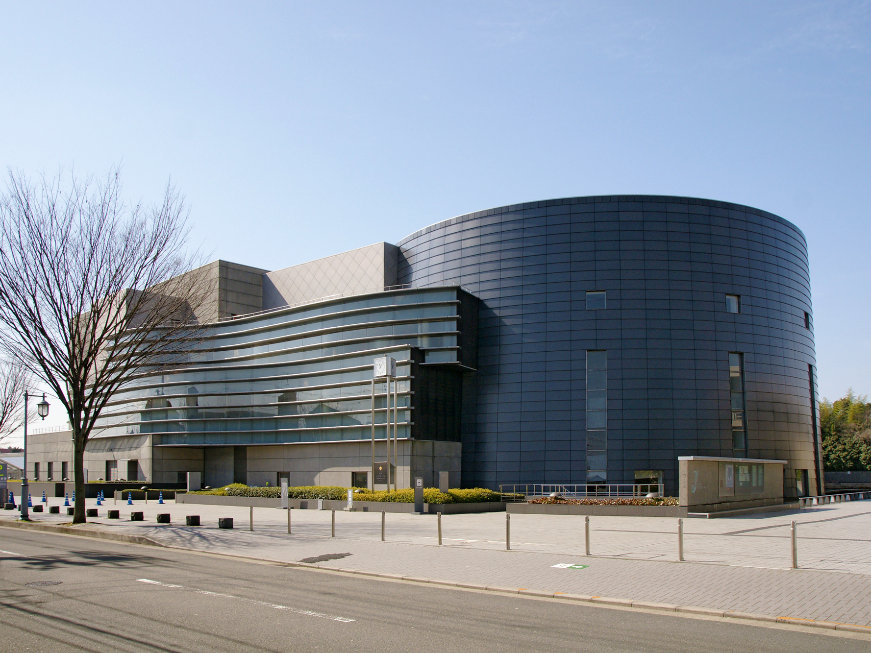 Kyoto Concert Hall in Kyoto, Kyoto prefecture, Japan